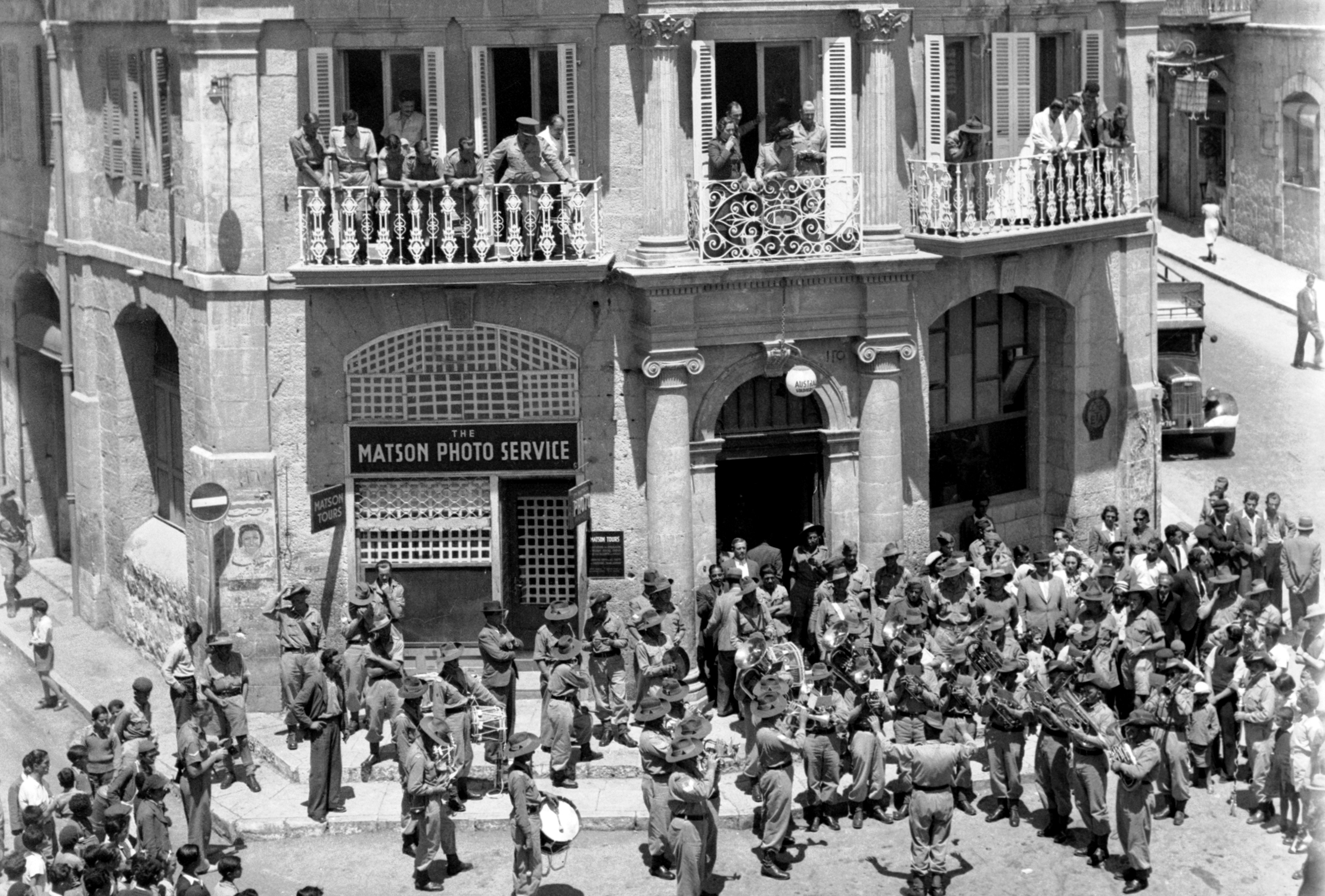 Anzac Day. April 25, 1942 (Jerusalem). Photo shows the Matson Photo Service store on first floor of building (formerly the Fast Hotel).